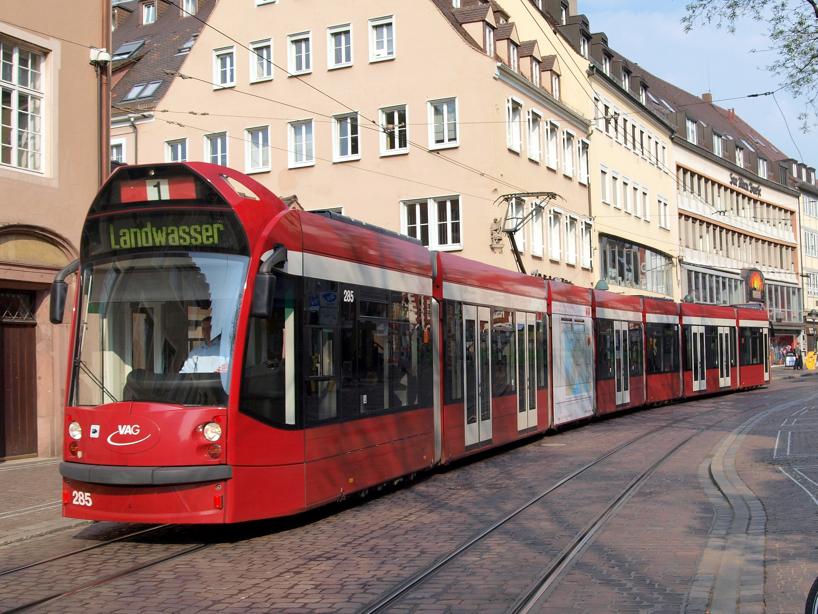 VAG Tram car 285, line 1 towards Landwasser at Freiburg, Germany